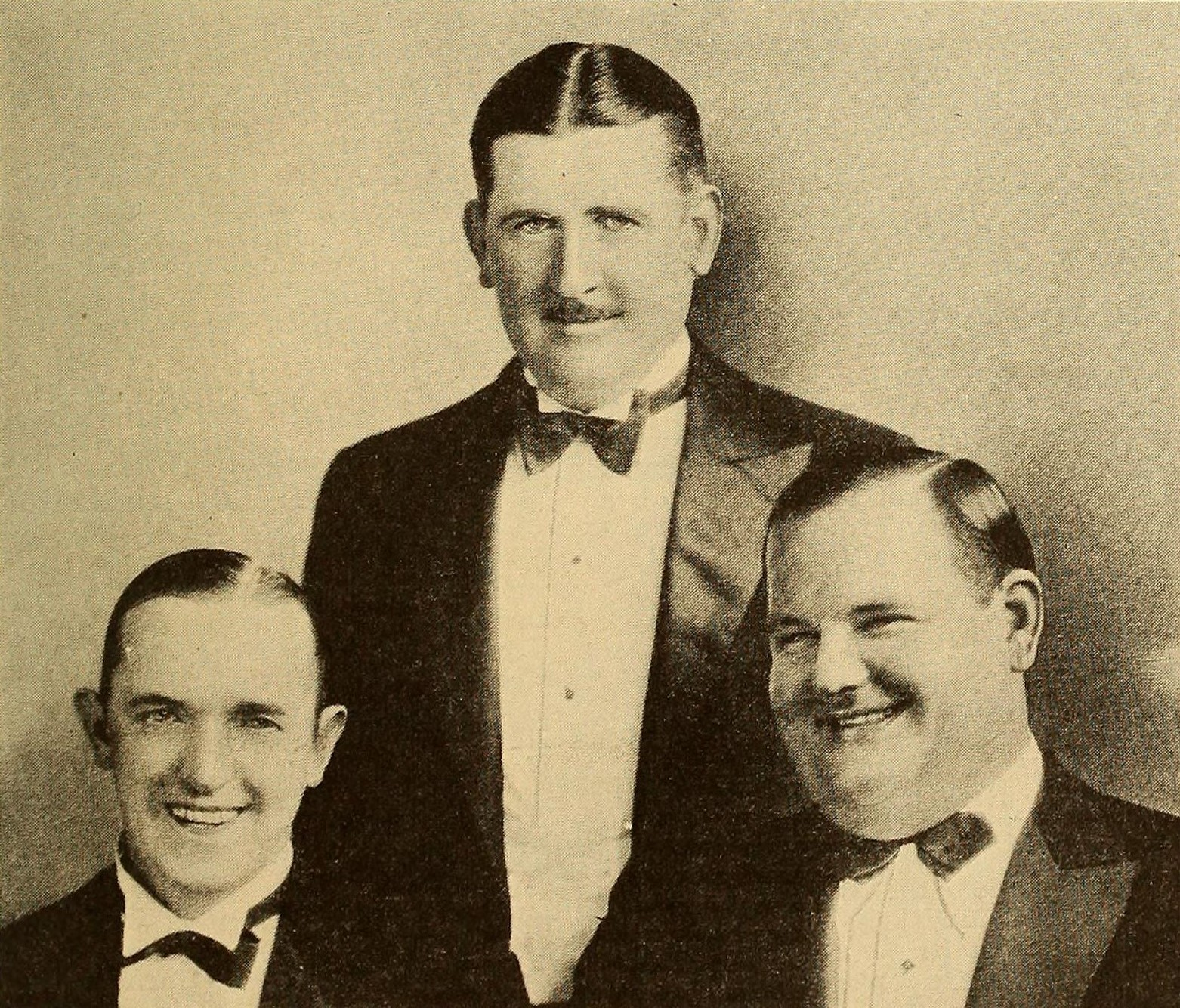 The New Movie, Oct. 1930